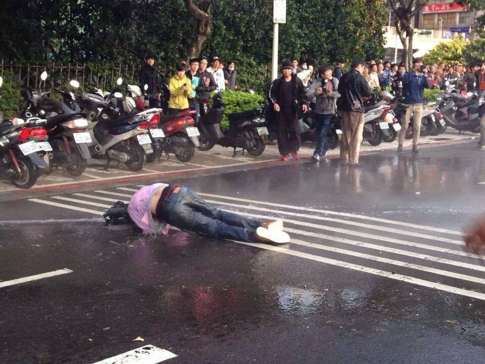 Protester after being struck by water cannons.